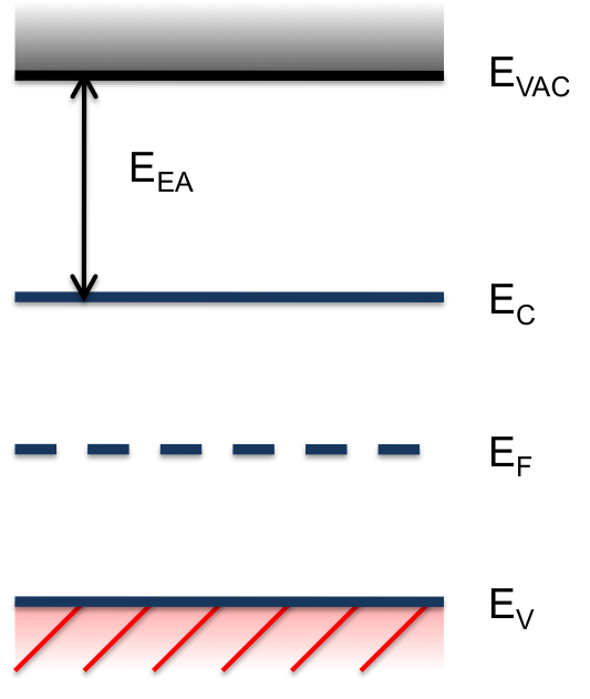 Electron affinity EEA in a band diagram; EVAC, EC, EF, EV stands for vacuum energy, conduction band, fermi energy and the valence band, respectively.